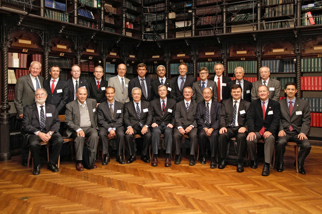 Robert Spetzler in a Neurosurgeons Group